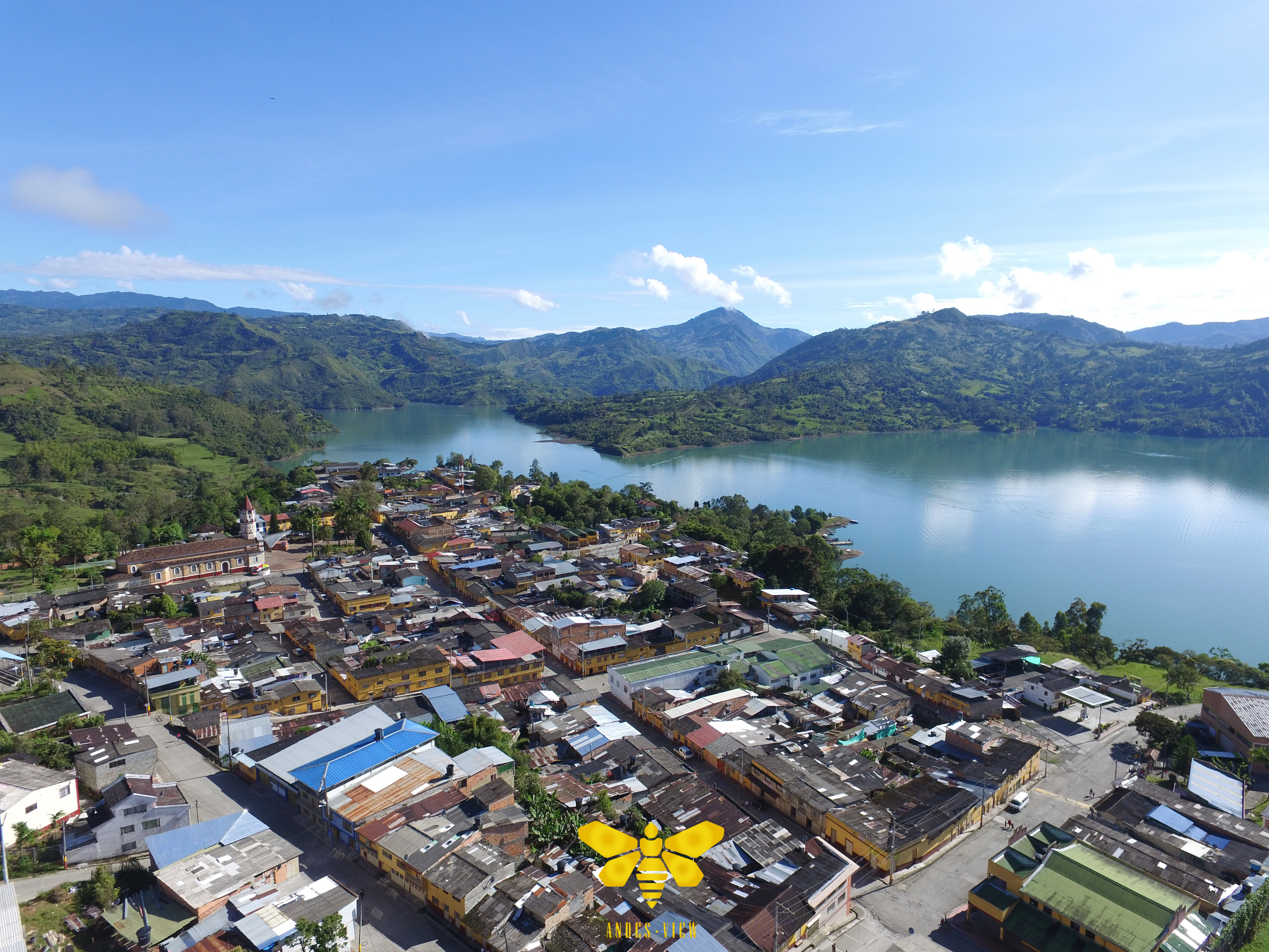 DCIM\100MEDIA\DJI_0574.JPG